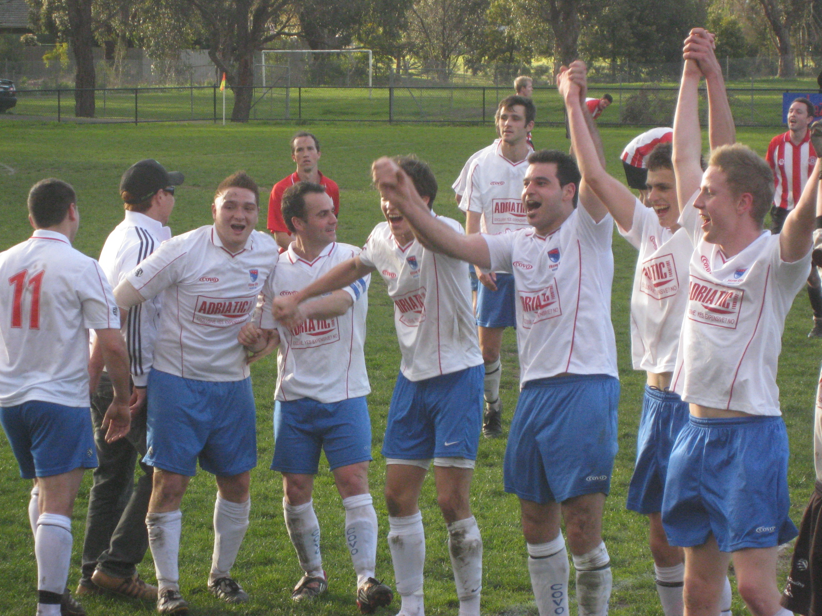 Final Day of the 2009 season, Fitzroy celebrate thier first championship in Nine years. (Following a 6-0 white wash away to rivals Mooroolbark Soccer Club)